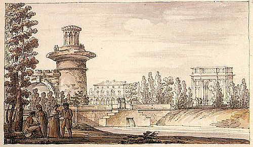 Ruine tower and Orlovsky gate